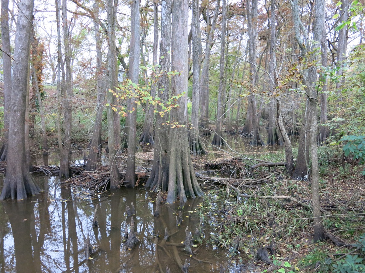 Photo shows Peach Creek at the County Road 135 bridge. View is toward the west.